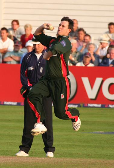 James Allenby at Taunton Cricket Ground